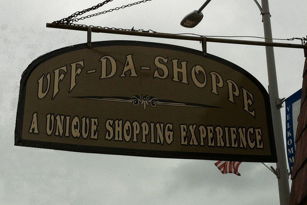 The sign in front of the Uff Da Shoppe in Westby, WI, a town with a very strong Norwegian heritage